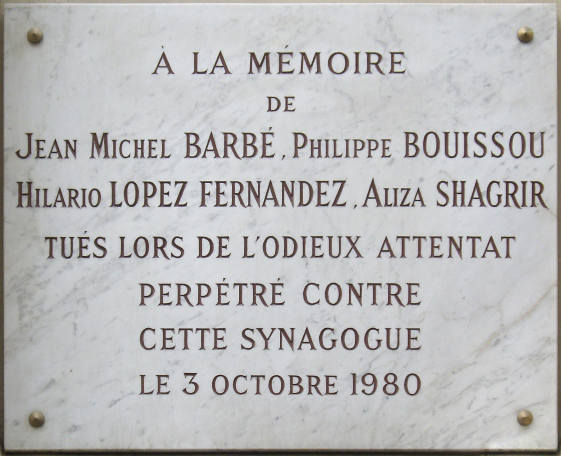 Plaque in memory of the victims of the 1980 Paris synagogue bombing at No 24 Rue Copernic, Paris 16th.